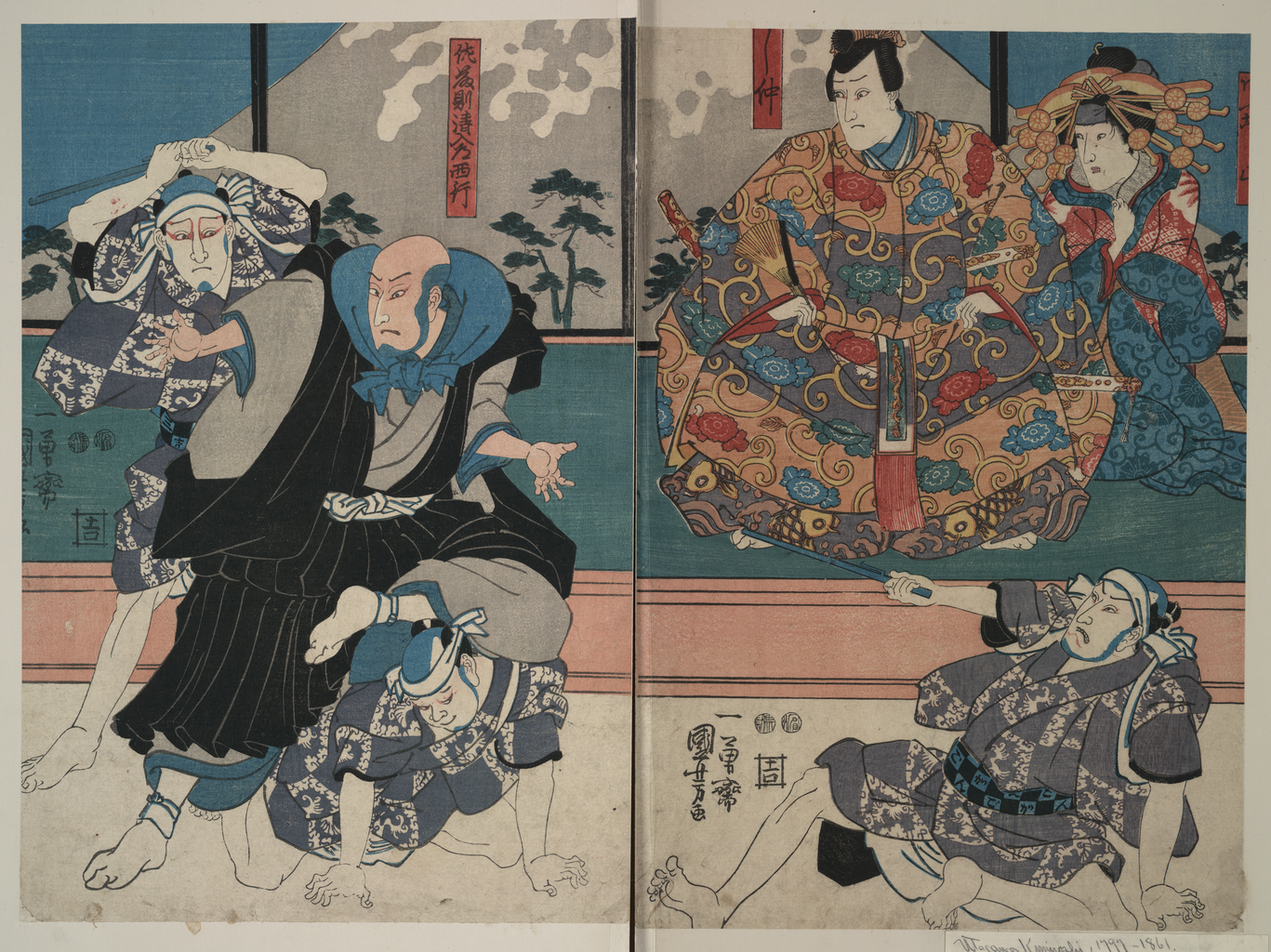 The Japanese art of Ukiyo-e (“Pictures of the floating [or sorrowful] world”) developed in the city of Edo (now Tokyo) during the Tokugawa or Edo Period (1600-1868), a relatively peaceful era during which the Tokugawa shoguns ruled Japan and made Edo the seat of power. The Ukiyo-e tradition of woodblock printing and painting continued into the 20th century. This diptych print of between 1849 and 1852 shows Saigyō surrounded by men trying to prevent him from leaving his house to become a priest. The poet Saigyō (1118-90) was born into an aristocratic military family but rejected the warrior’s life and took orders as a Buddhist priest when he was about 22 years old.